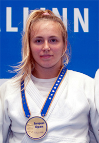 Daria Pogorzelec, Polish judoka